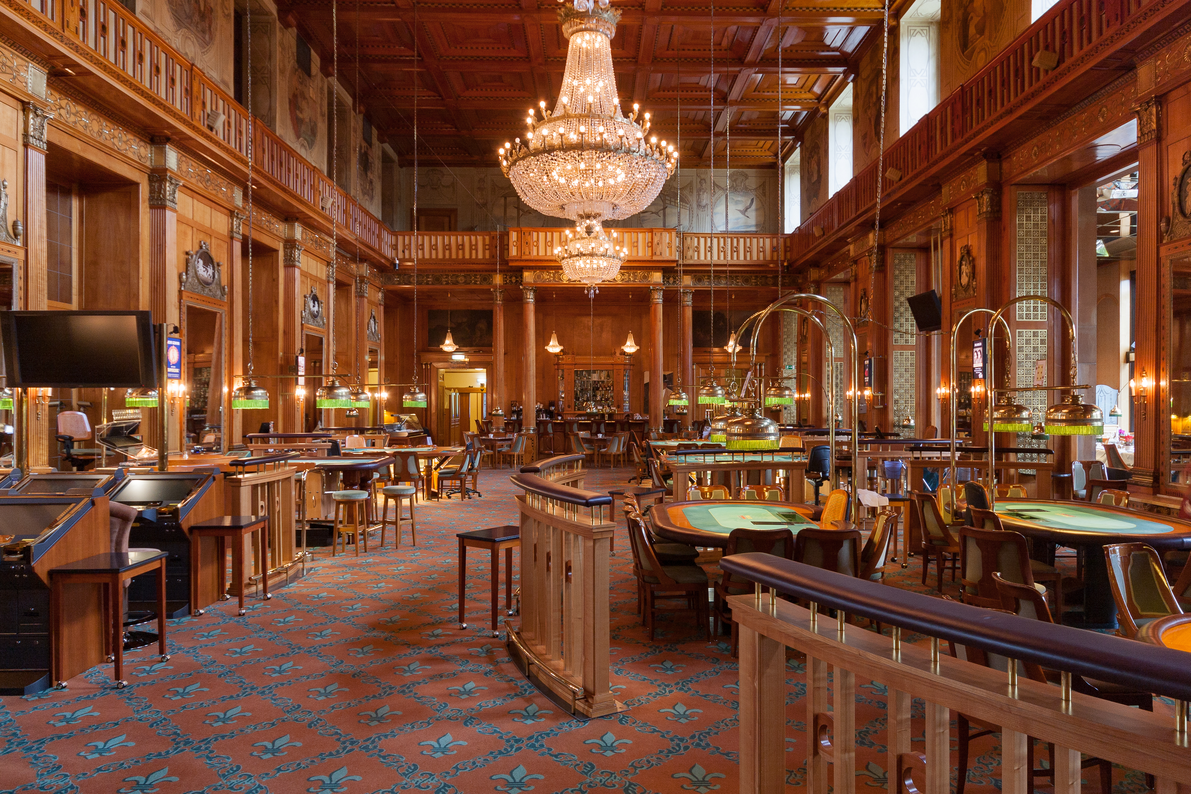 The Casino of the Kurhaus Wiesbaden